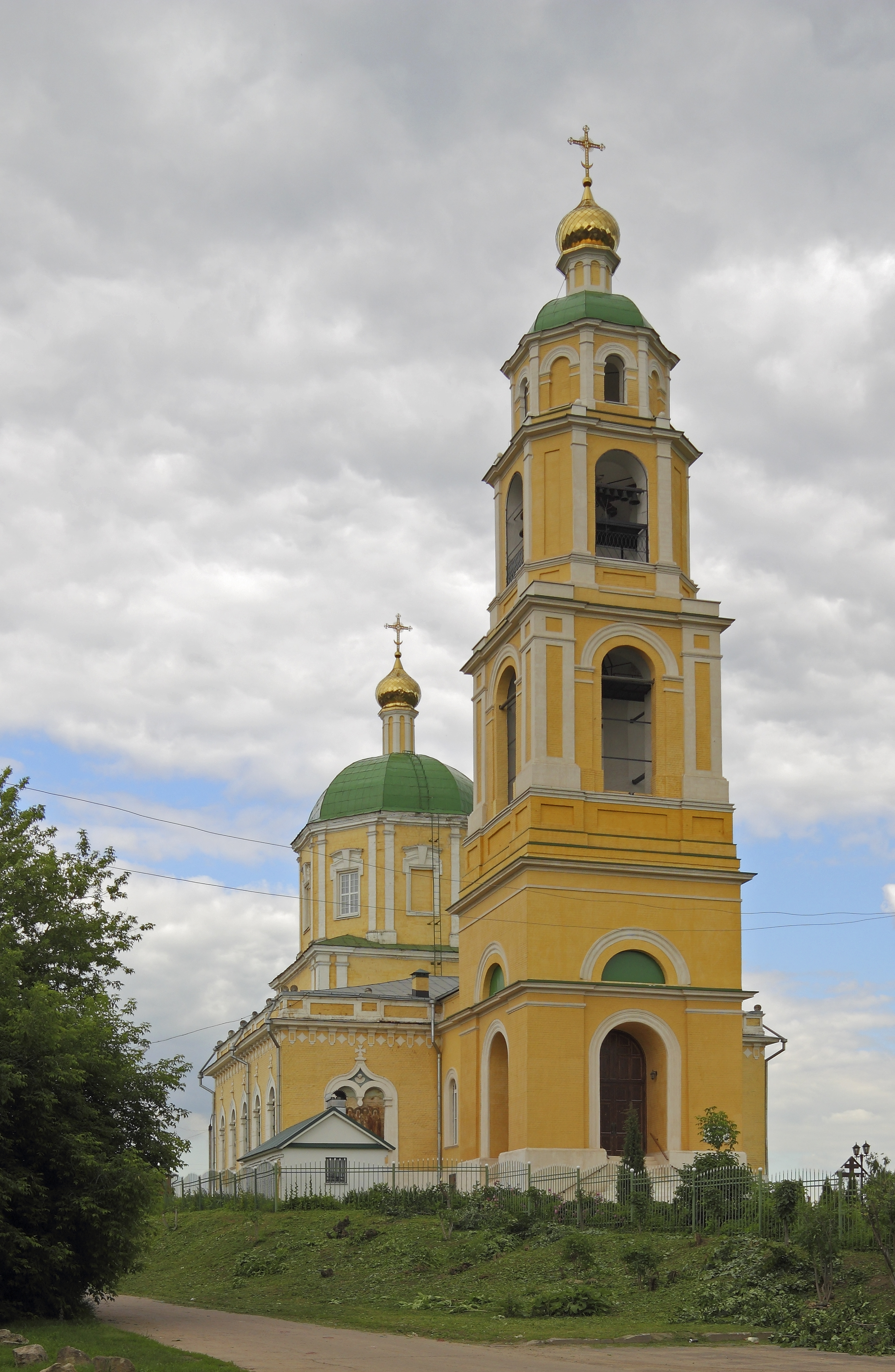 St. Nicholas Church in settlement Domodedovo (Domodedovo city district), Moscow Oblast